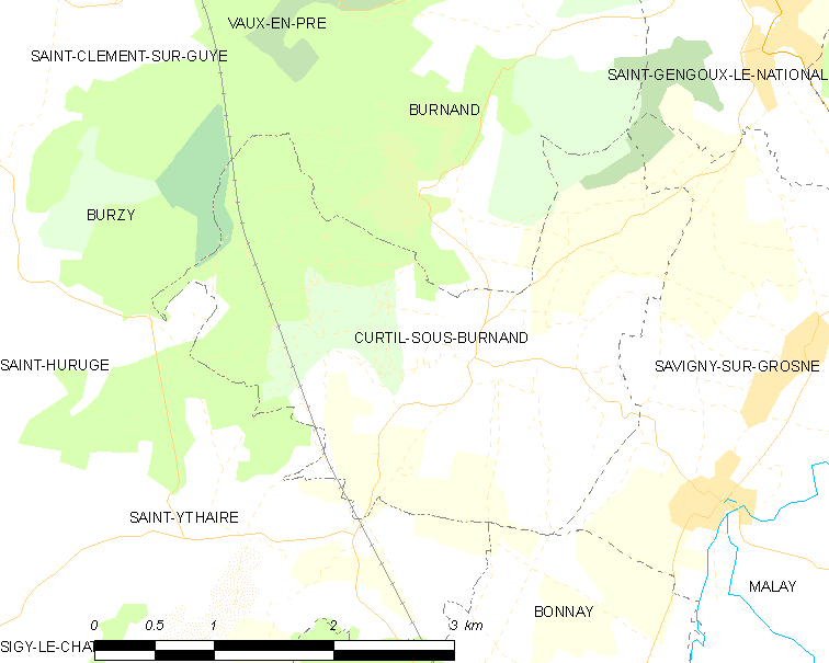 Map of French municipality